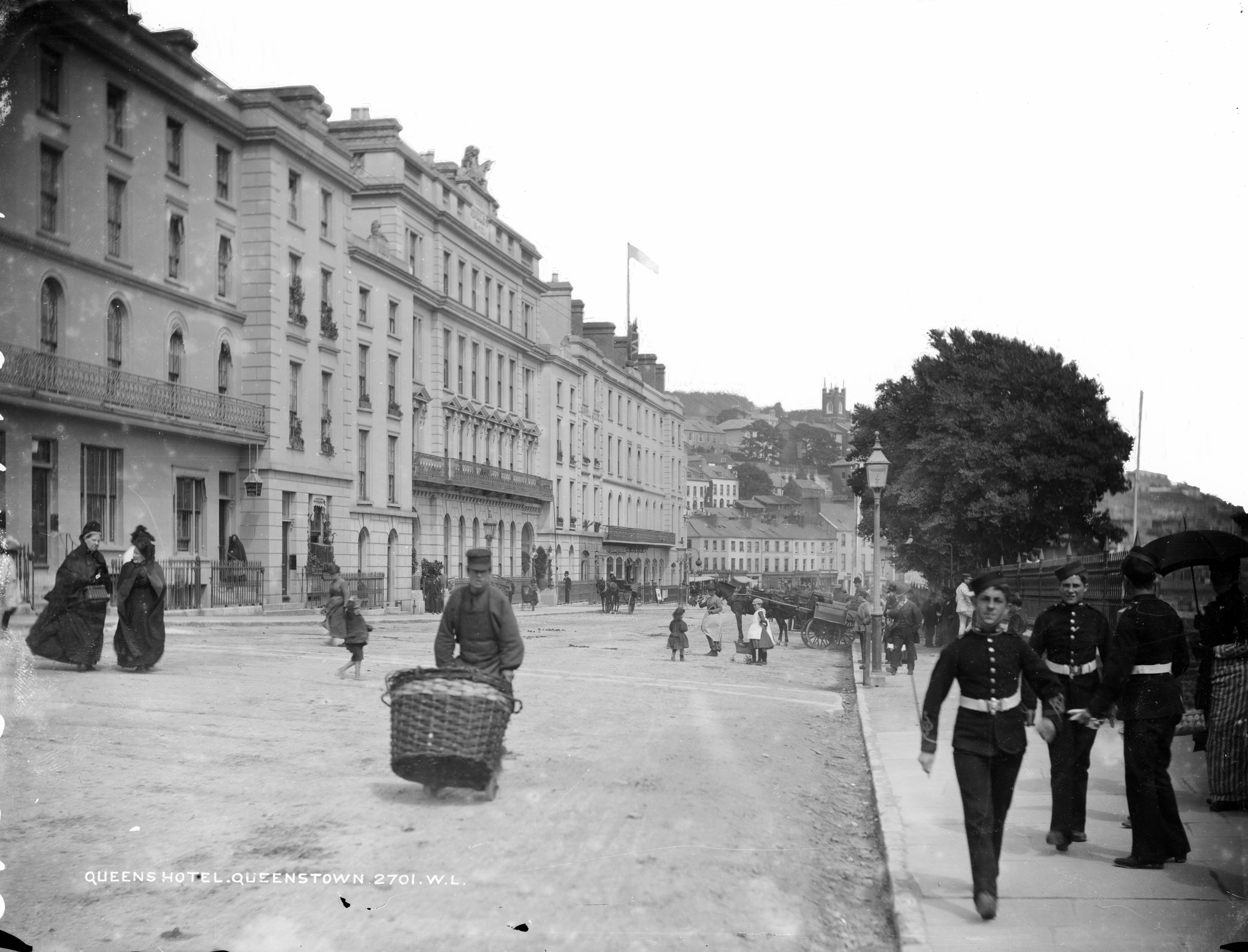 Fell in love with this street scene from Cobh (Queenstown as was) because of the soldiers, but then noticed the woman further back near the side cars. Virtual prizes for any or all of you who can give a plausible explanation why she's playing a cornet/trumpet(?) in the middle of the street? Date: 1890s?? NLI Ref.: L_ROY_02701